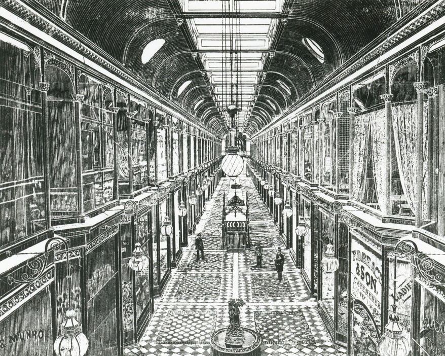 Adelaide Arcade interior 1886